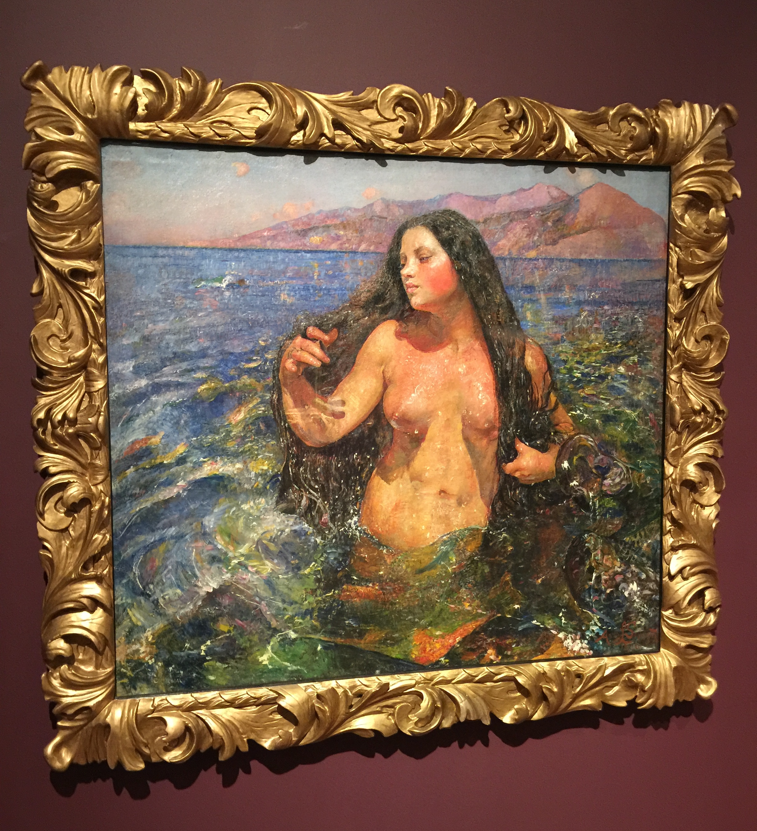 Annie Swynnerton